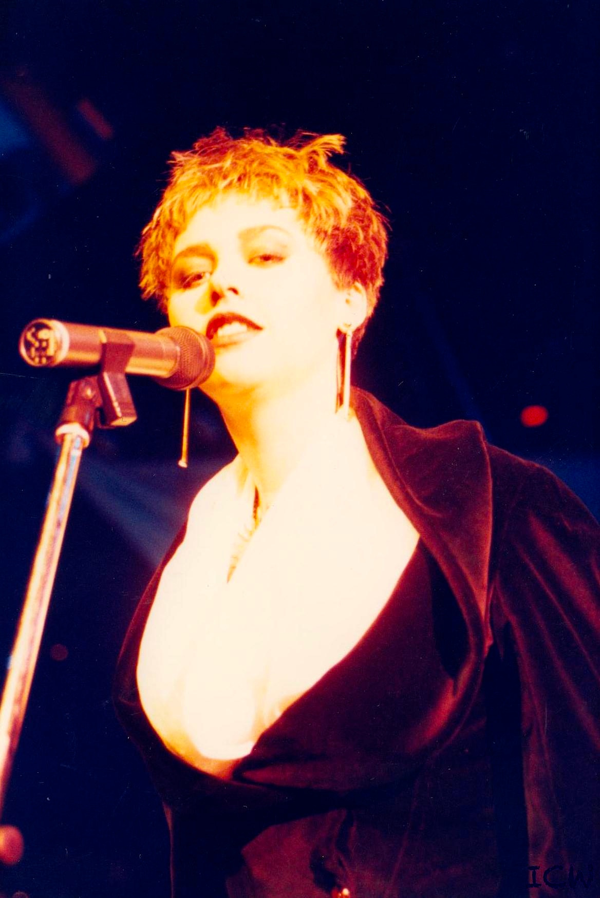 Teresa Revill of Big Bang (British Band) on stage during the band's lavish Arabic Circus Tour